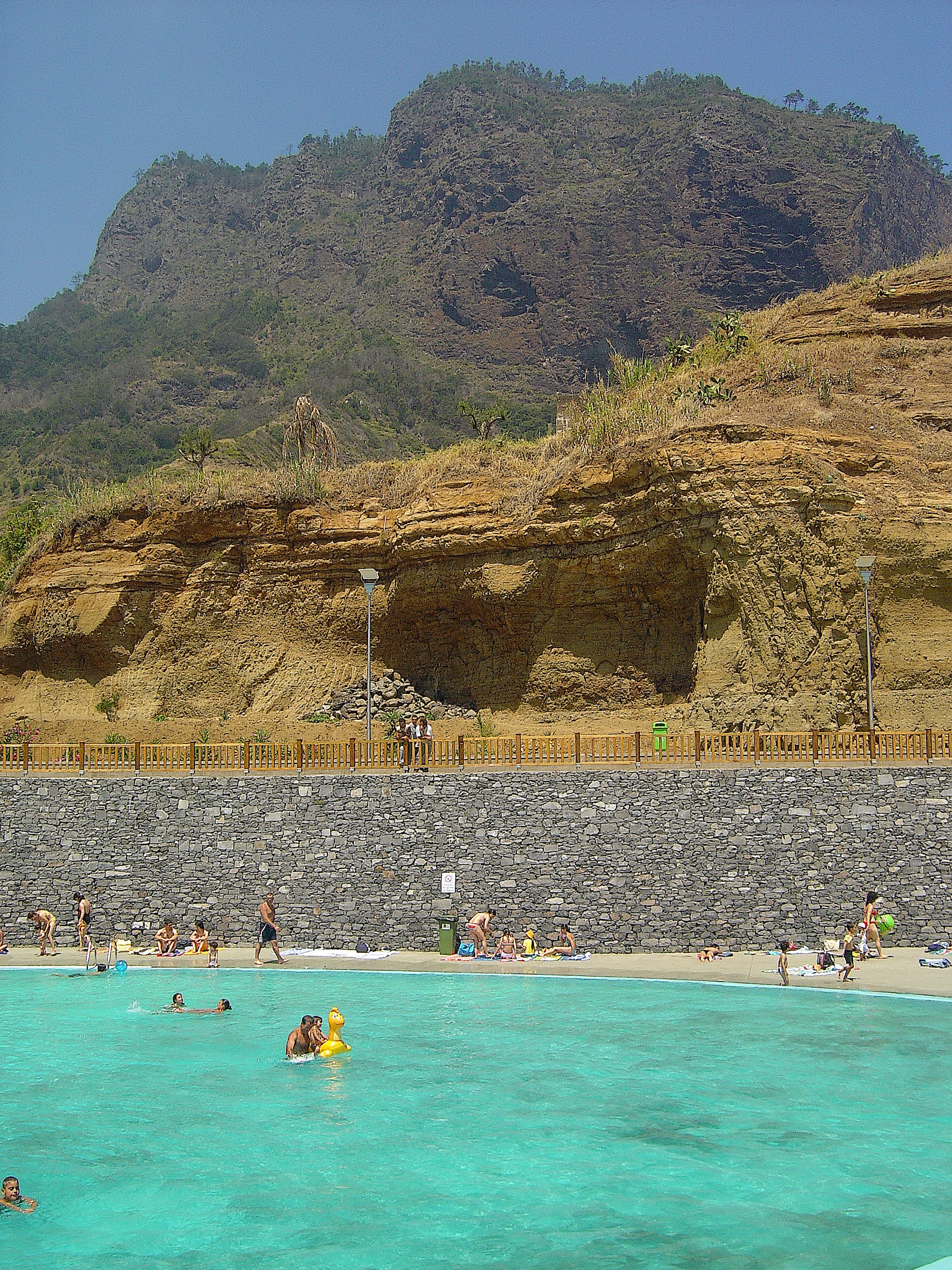 See where this picture was taken. [?]